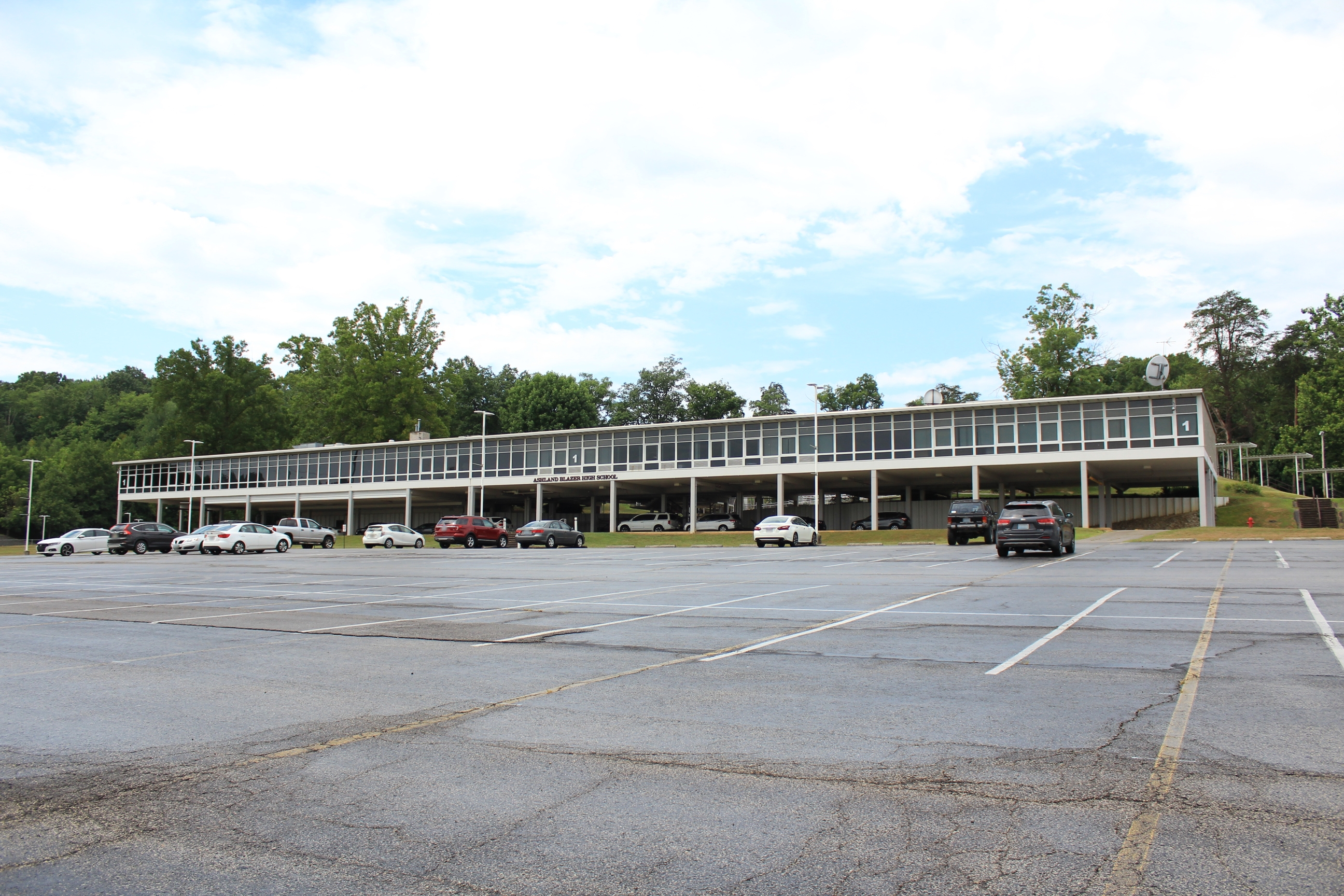 The front building of Paul G. Blazer High School located in Ashland, Kentucky.